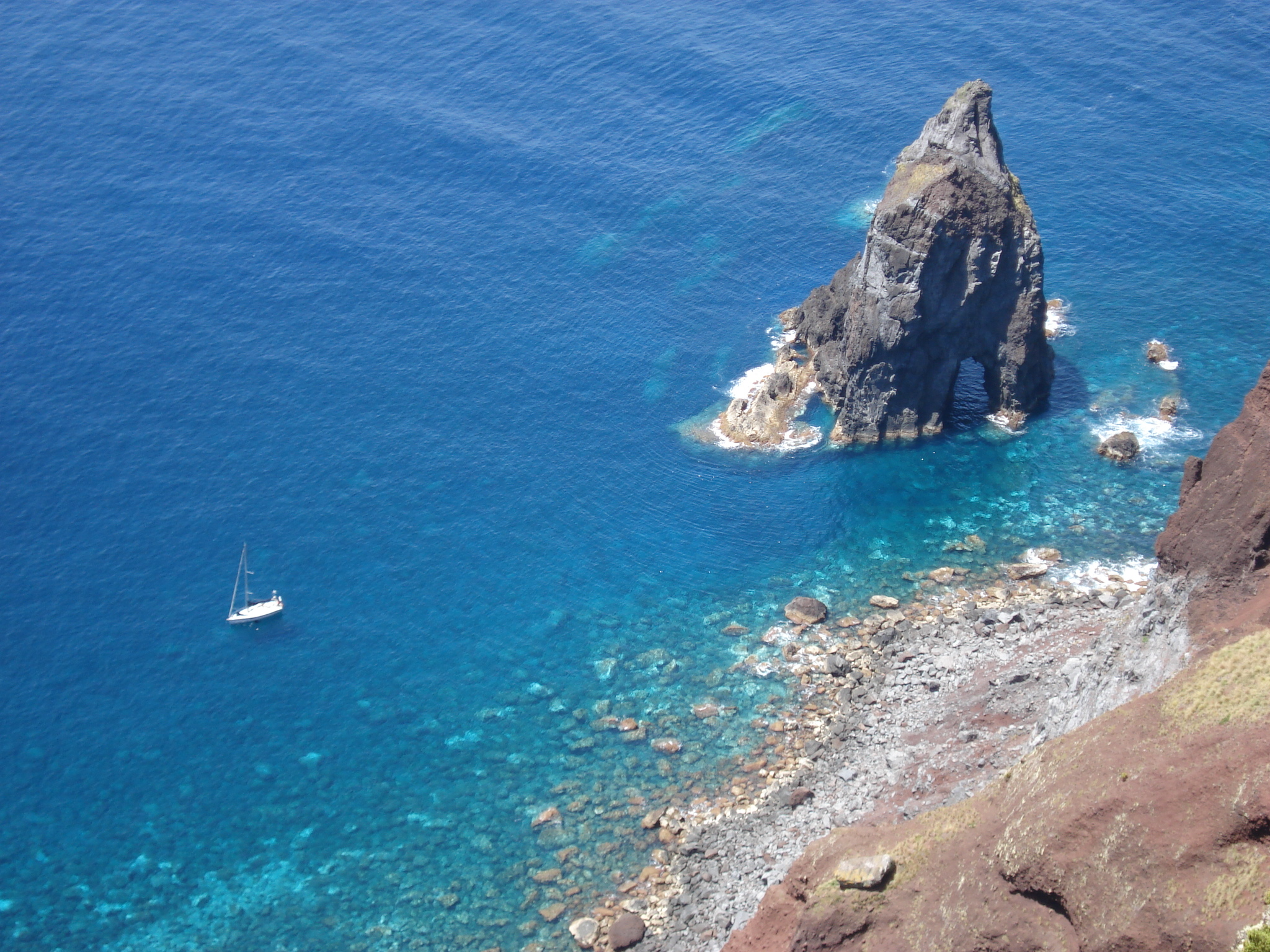 The islet of Ponta dos Rosais, civil parish of Rosais, municipality of Velas (Azores), Portugal